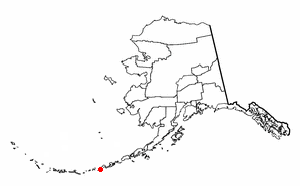 Adapted from Wikipedia's AK borough maps by Seth Ilys.